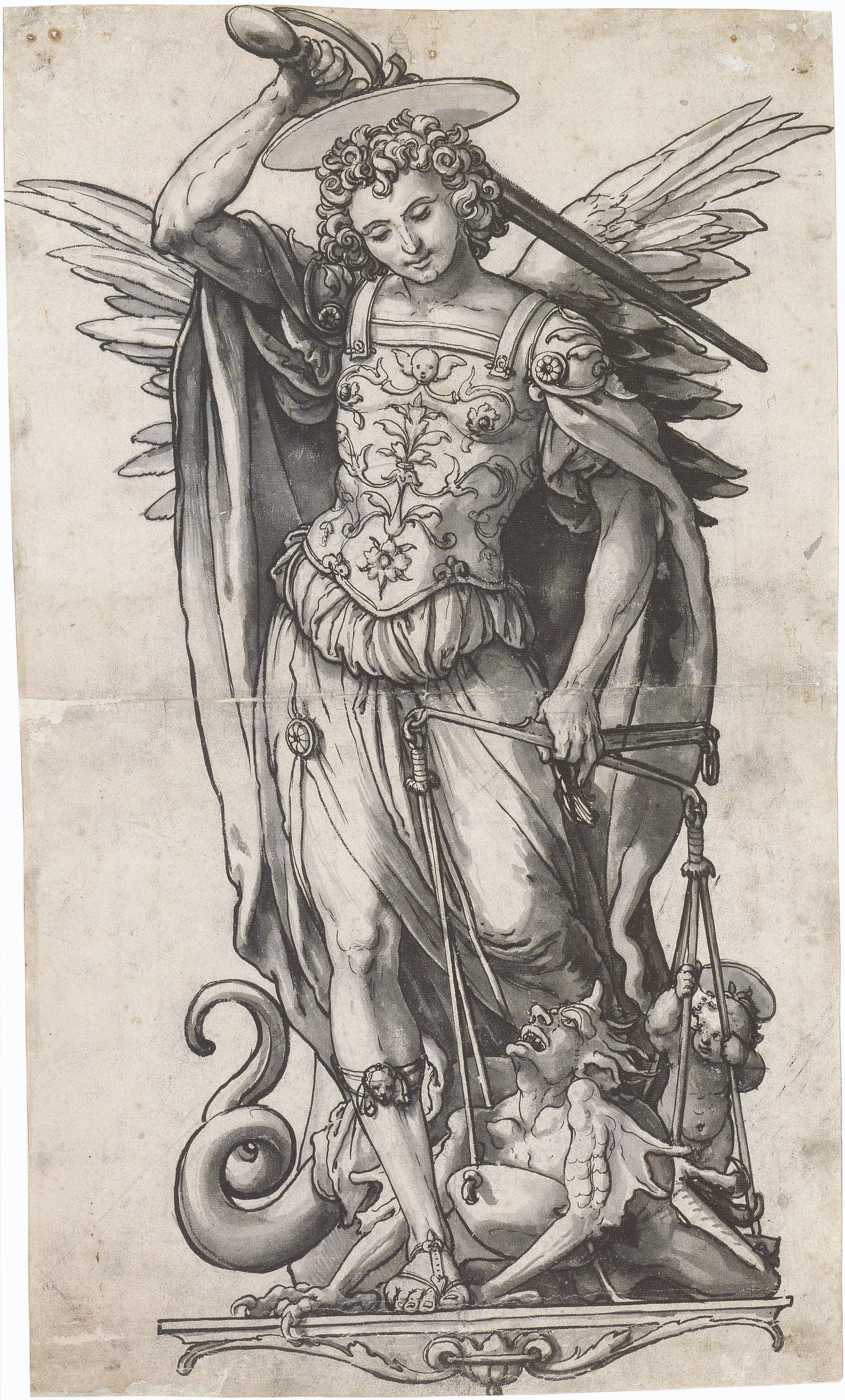 The Archangel Michael Weighing Souls. Pen and ink and brush, grey wash, 38.8 × 22.8 cm, Kunstmuseum Basel. In this drawing based partly on the engraving The Archangel Gabriel by Agostino Veneziano, Holbein shows the devil trying to usurp the scales against the Christ Child, with Gabriel raising his sword to strike him (Müller, 286).